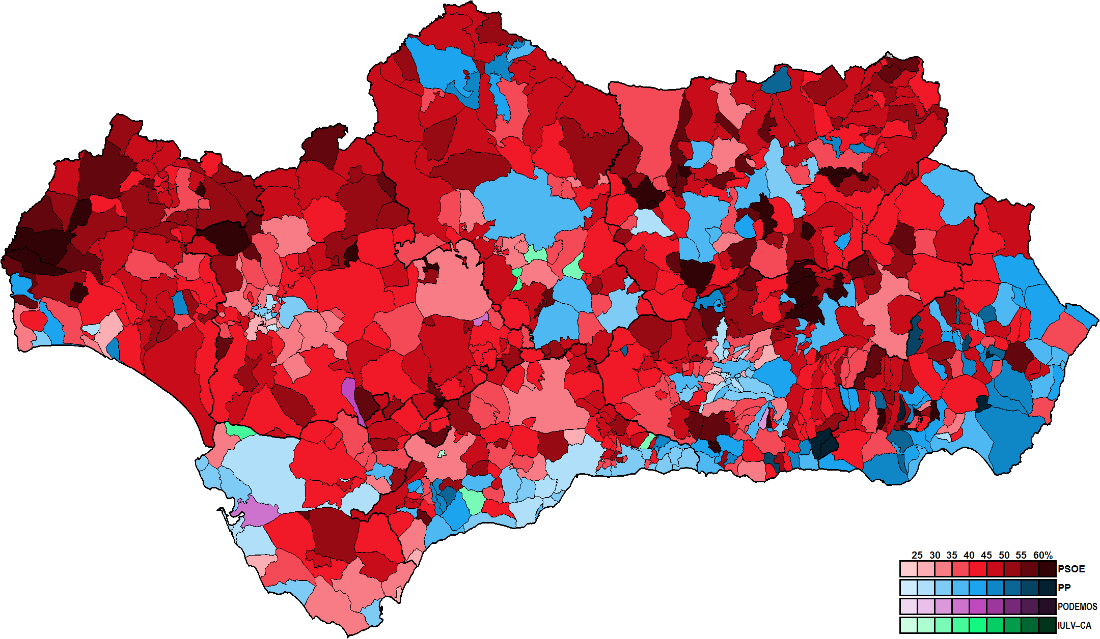 Most-voted party in Andalusia municipalities, showing vote share obtained, in the Spanish general election, 2015.